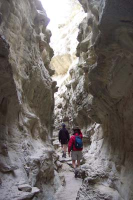 Inside a Ravine in Upper Missouri River Breaks National Monument, Montana, United States